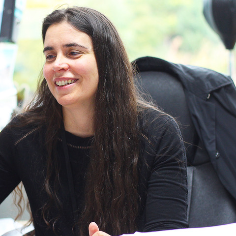 Prof Sonia Rocha in her office